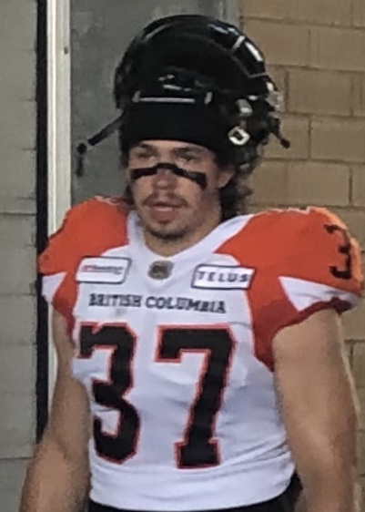 Adam Konar, linebacker for the BC Lions.